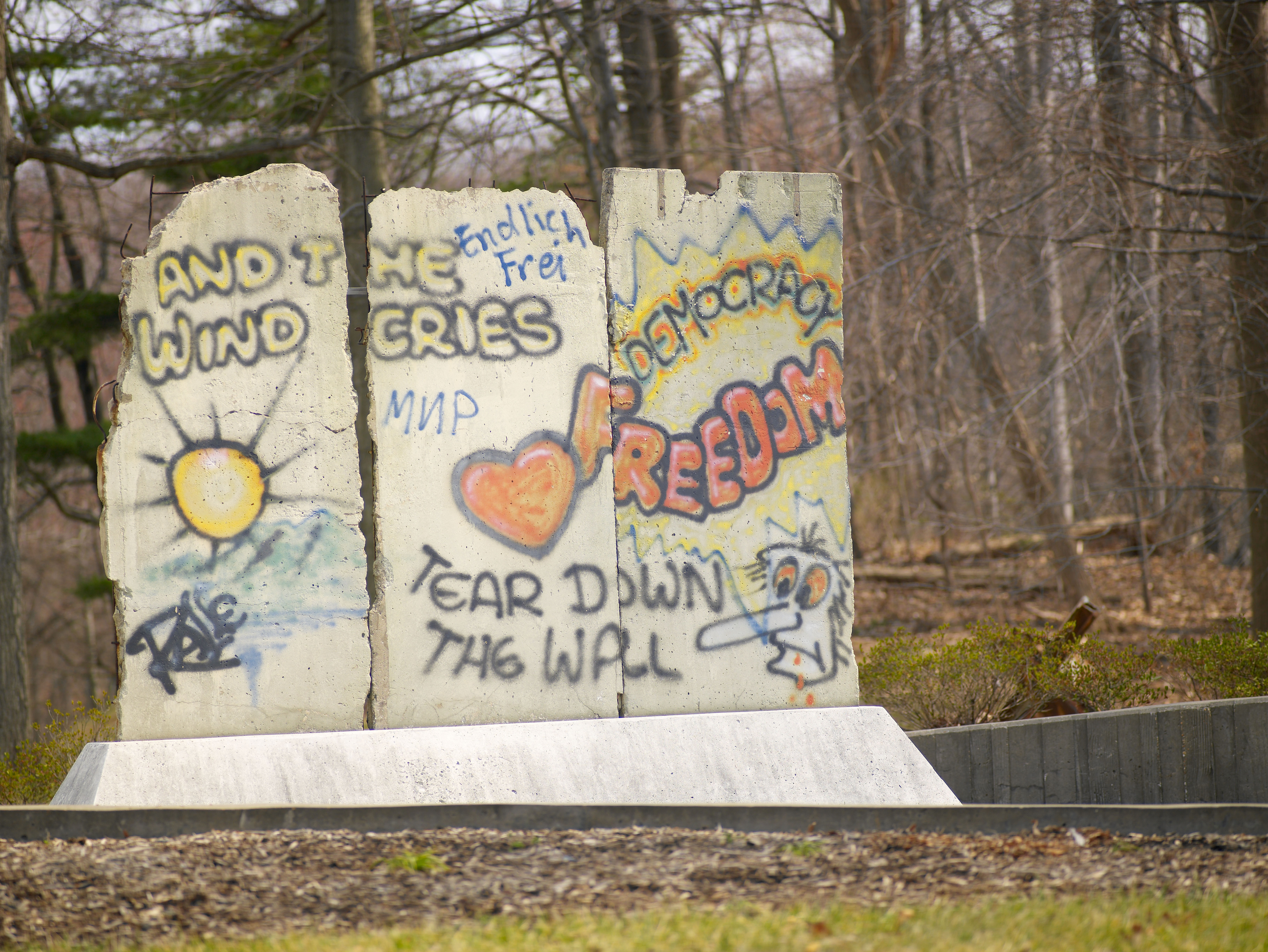 The monument is oriented as it was in Berlin — the west side painted with graffiti and the east side whitewashed. The west side of the Wall is covered with graffiti that reflects the color, hope and optimism of the West itself.